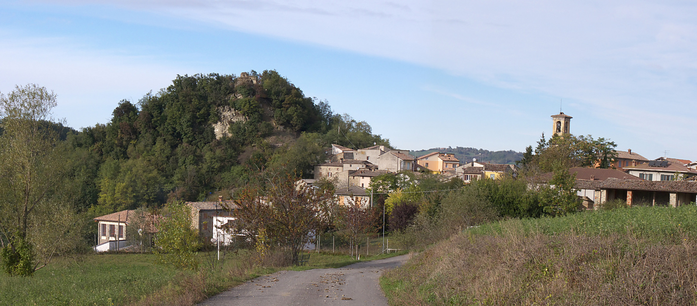 Trebecco